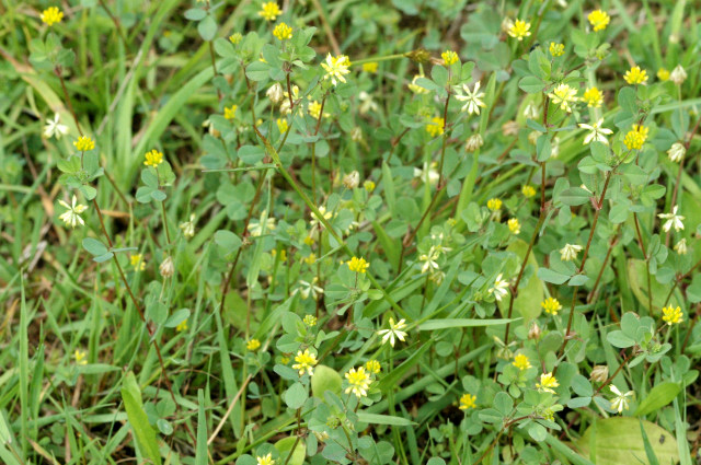 Trifolium dubium from Commanster, Belgian High Ardennes .